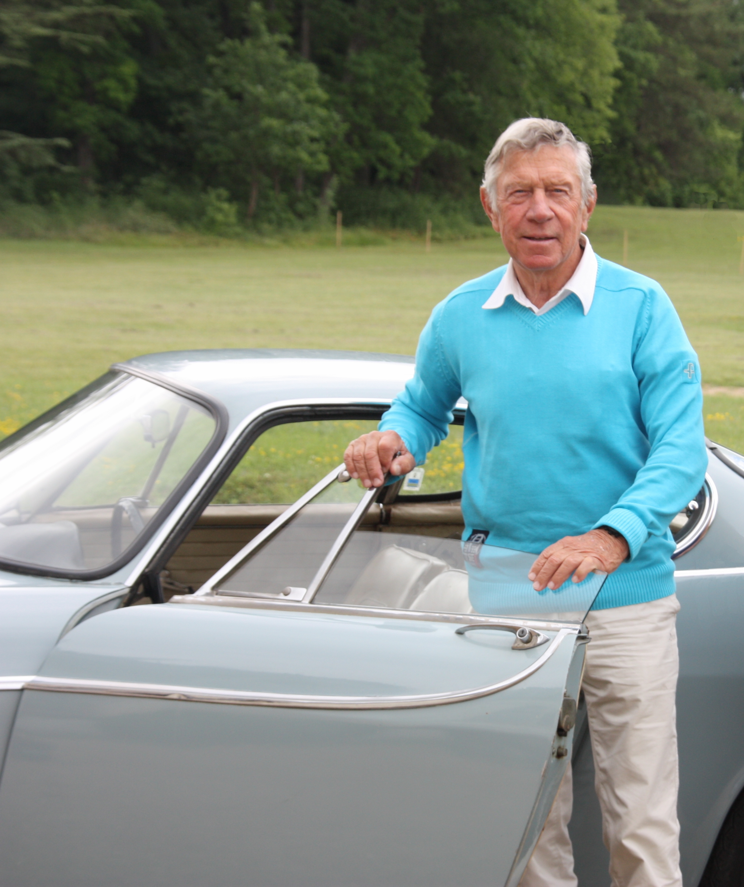 Pelle Petterson near the P958-X1 during the 50th Anniversary in France